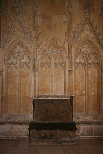 The shrine of Little St.Hugh Little St.Hugh was a christian boy reputedly crucified by Jews in Lincoln in 1255, the ensuing retribution resulted in the deaths of many of Lincoln's Jews. During the Cathedral restoration of 1790 a stone coffin was found containing the skeleton of a boy 3ft 3 inches tall, seemingly confirming the tradition. The tomb was originally more substantial but destroyed during the iconoclastic excesses of the Commonwealth, though a copy of William Dugdale's drawing of 1641 can be seen nearby.